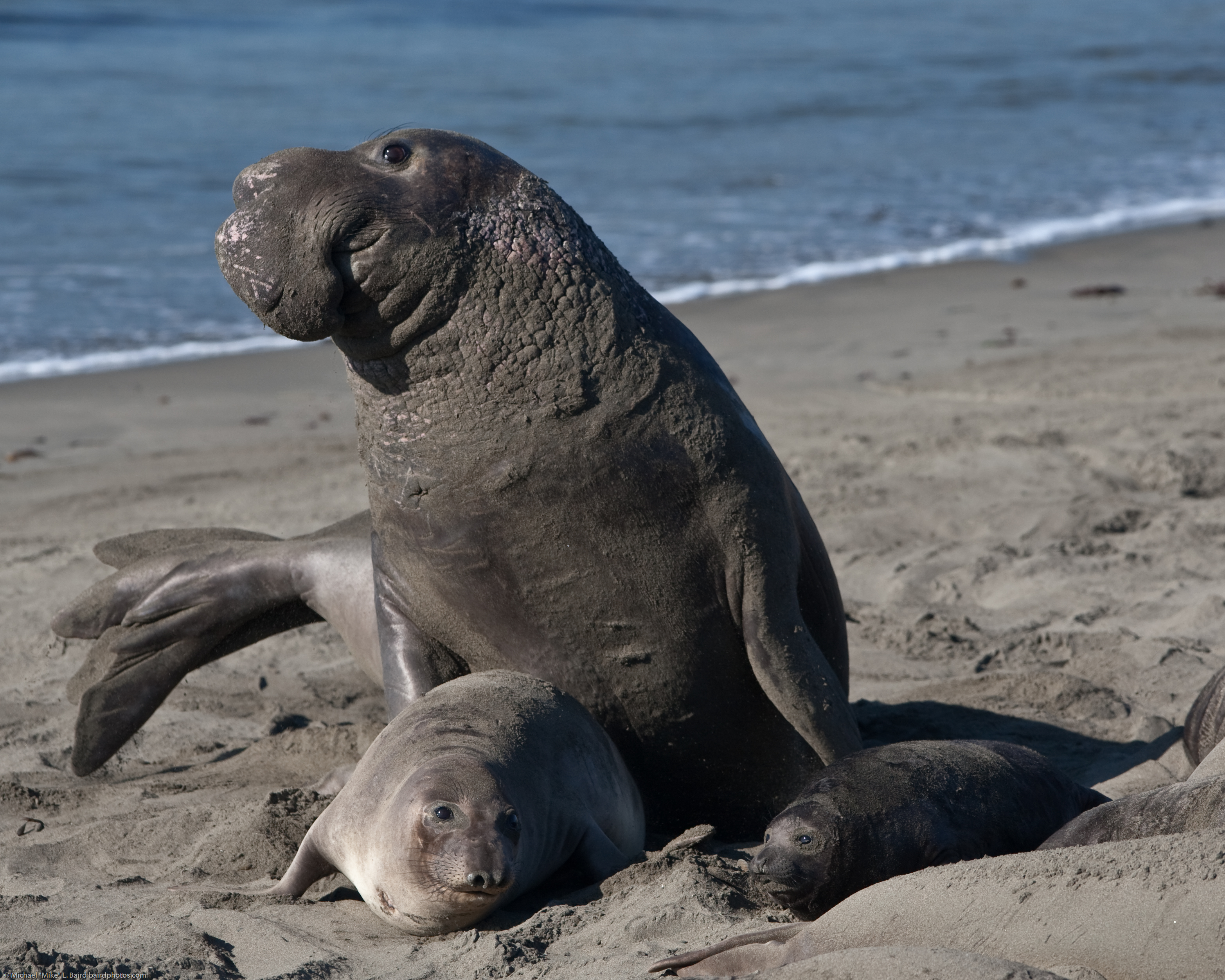 Mating scene with elevated Alpha Male. Elephant Seals of Piedras Blancas, San Simeon, CA, 31 Jan 2009.